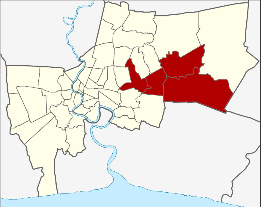 Bangkok 2007 Election Zone 7